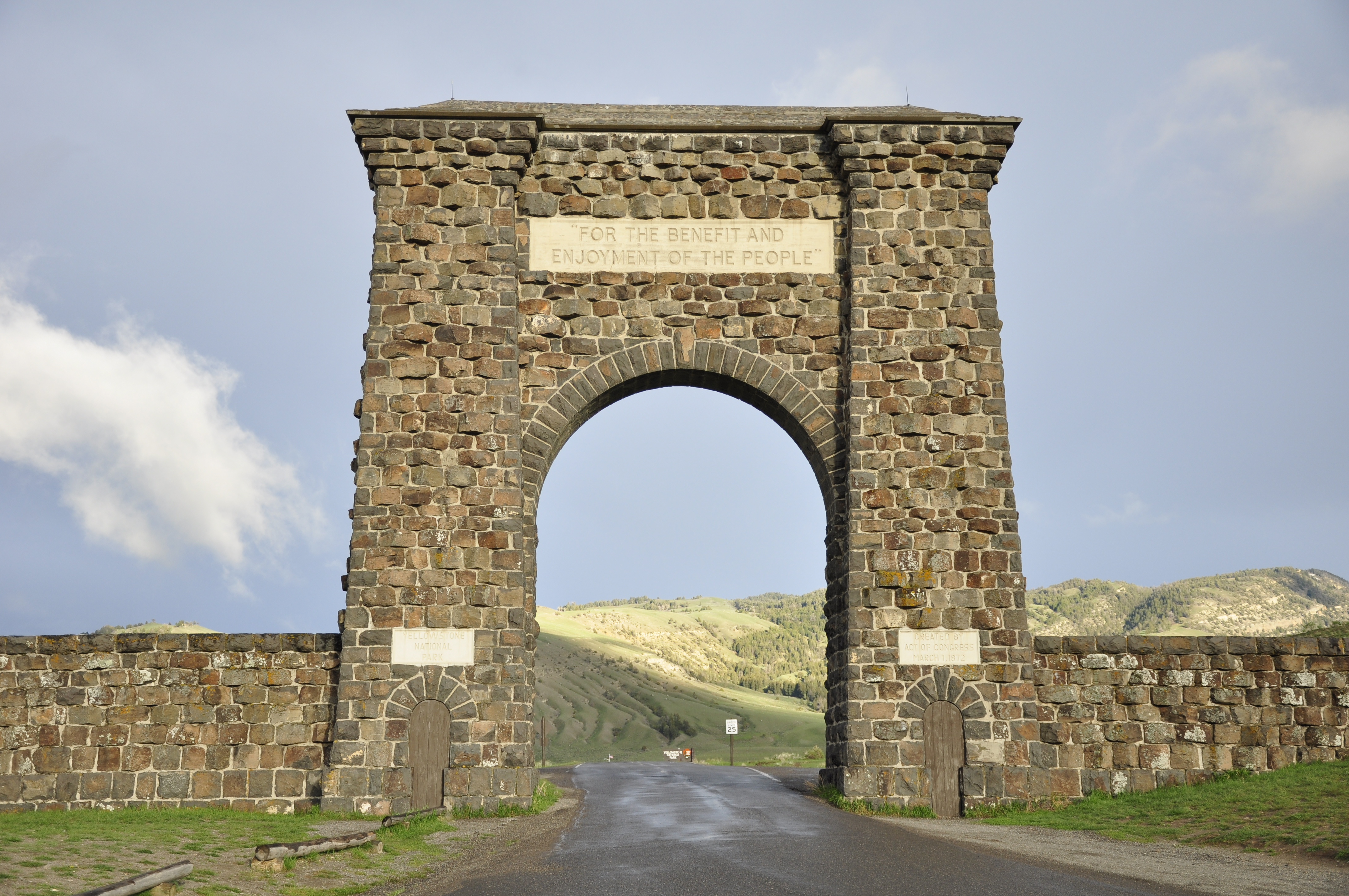 The north gate of the Yellowstone National Park